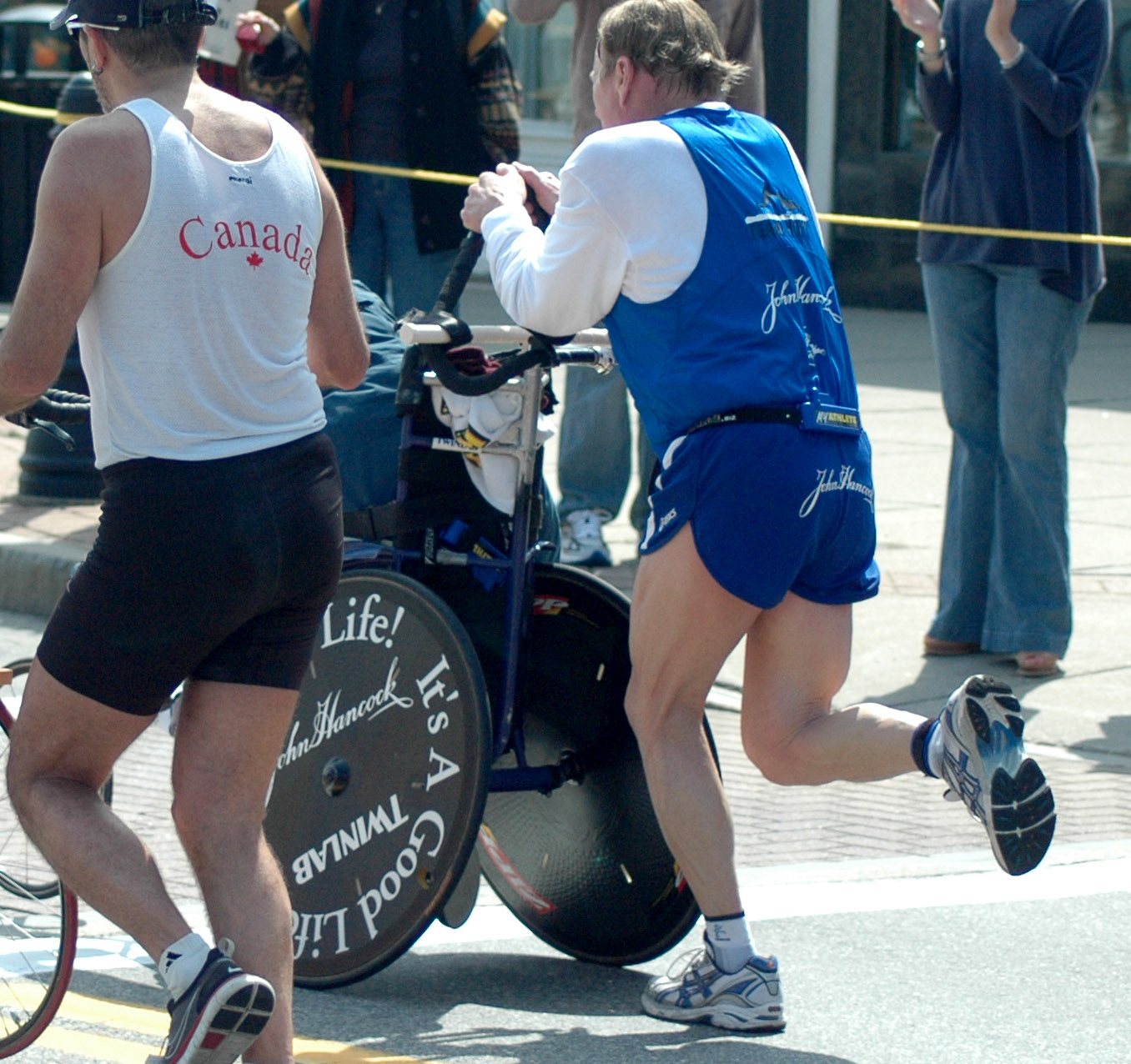 Team Hoyt at half way point of 2008 Boston Marathon in Wellesley